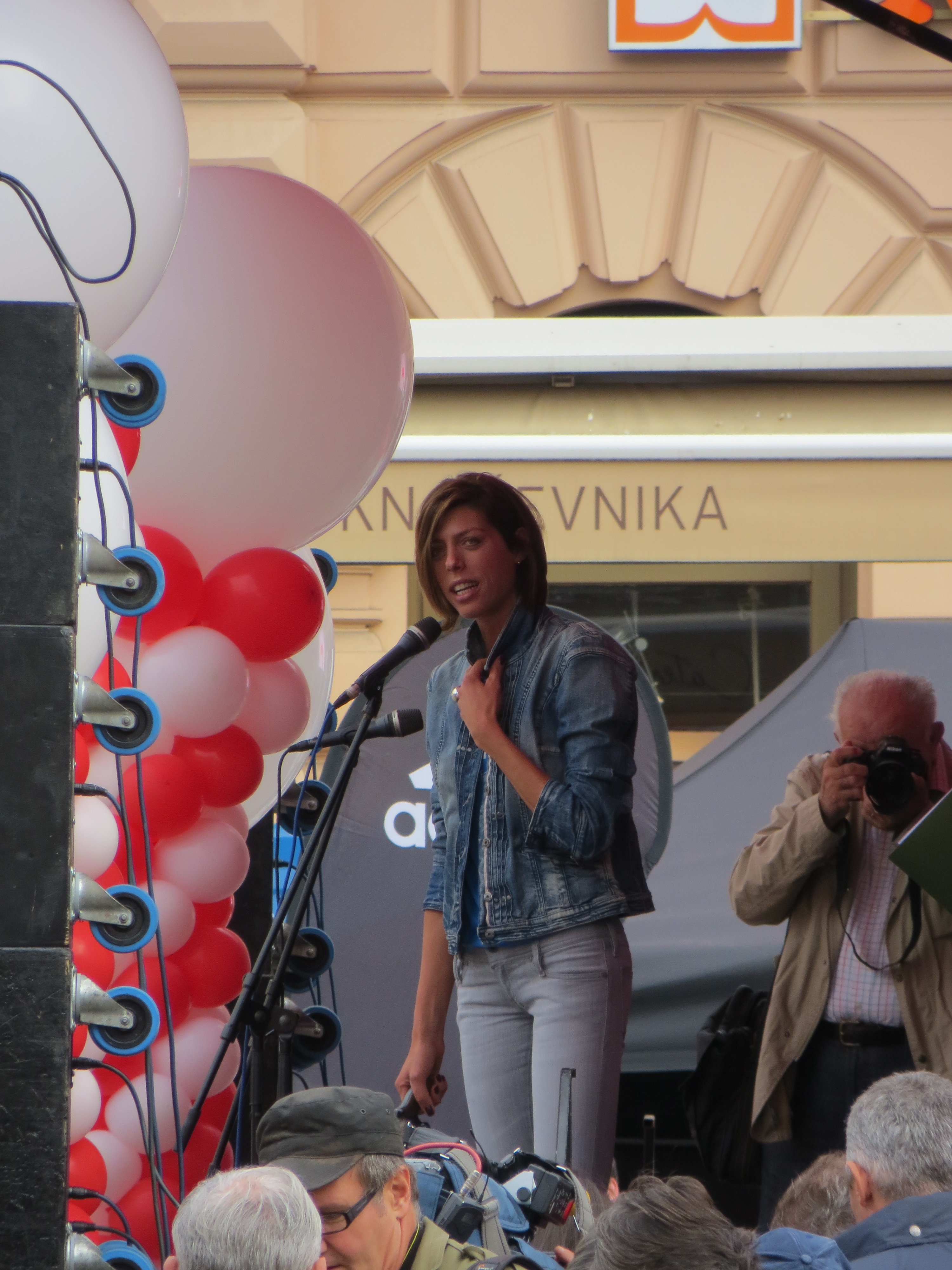 Blanka Vlašić holding a starting gun and addressing the public shortly before the start of the 2012 Zagreb Marathon.